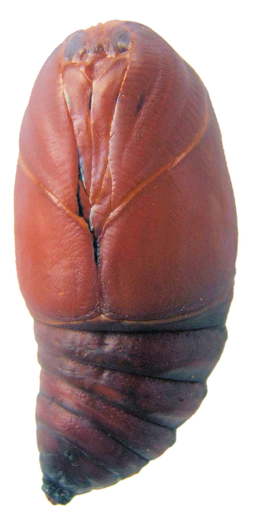 Actias luna pupa taken by Shawn Hanrahan. Reared on American Sweetgum.